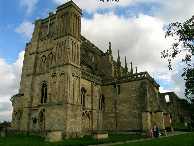 Malmesbury Abbey, Wiltshire, seen from the southwest